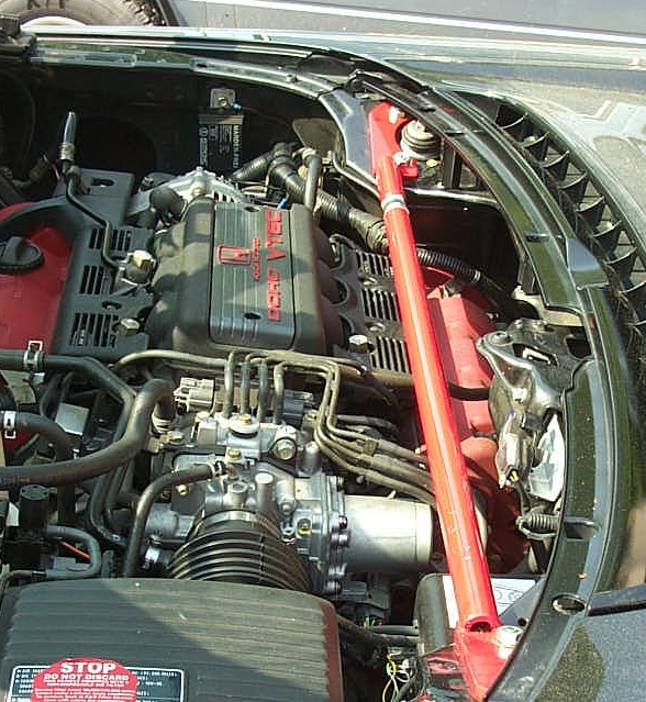 Engine of Honda NSX 1998, 3.2 l